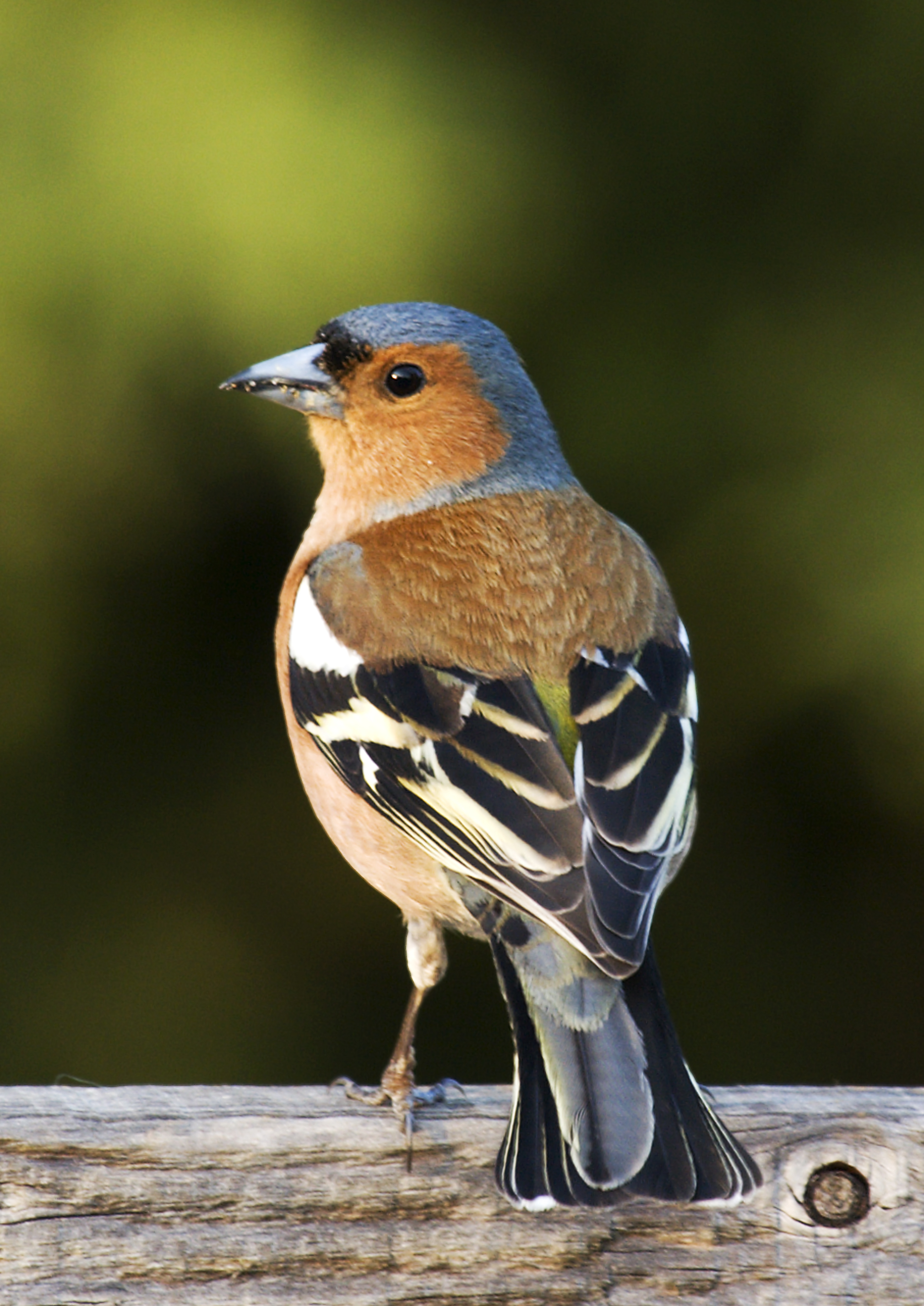 Fringilla coelebs (chaffinch), male